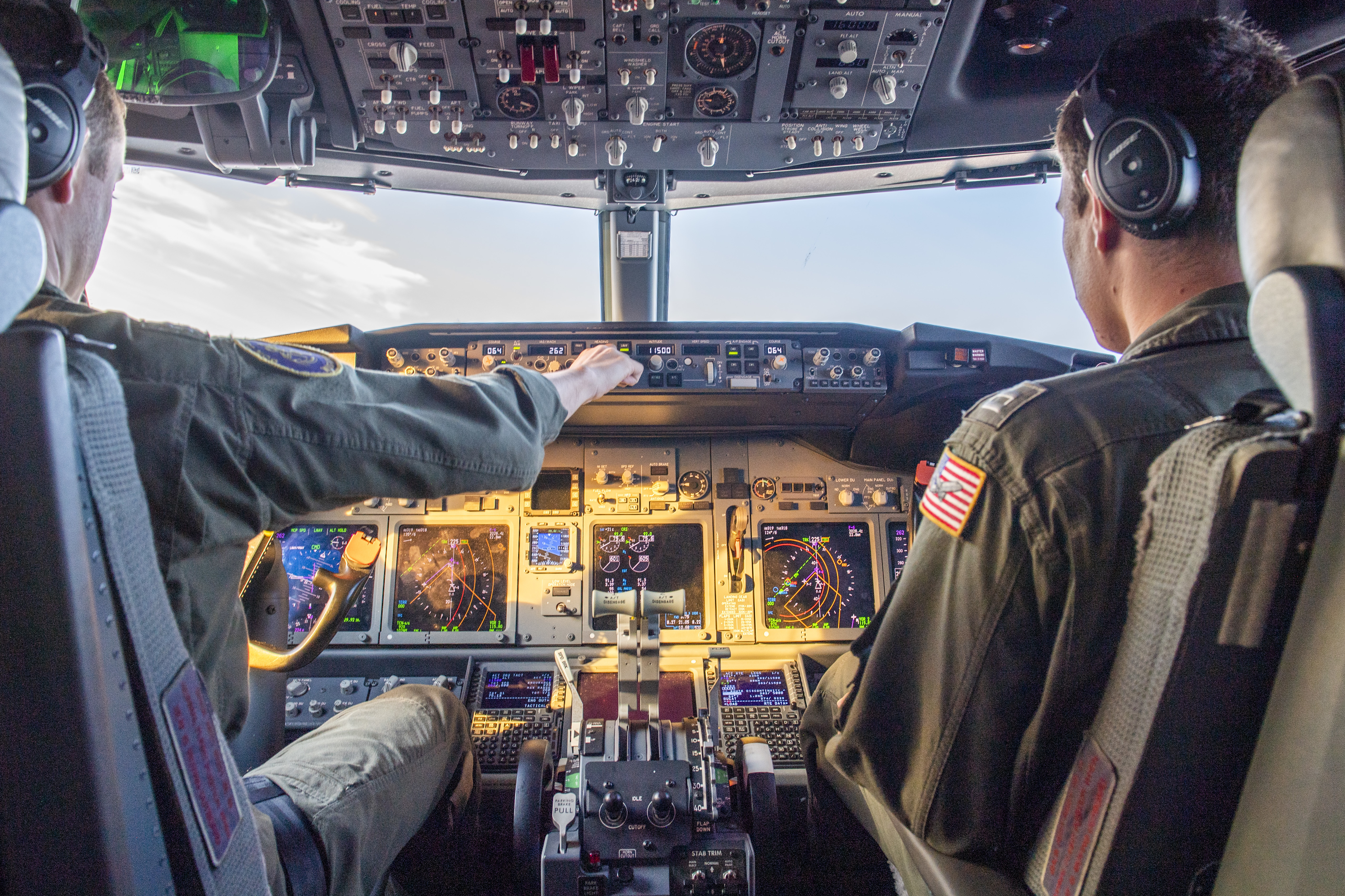 191001-N-CO914-1130 PHILIPPINE SEA (Oct. 1, 2019) Lt. Levi Ellis, left and Lt. Bradley Woods pilot a P-8A Poseidon assigned to Patrol Squadron (VP) 47 as part of a sinking exercise (SINKEX) during Exercise Pacific Griffin 2019. Pacific Griffin is a biennial exercise conducted in the waters near Guam aimed at enhancing combined proficiency at sea while strengthening relationships between the U.S. and Republic of Singapore navies. (U.S. Navy photo by Mass Communication Specialist 1st Class Nathan Carpenter/Released)